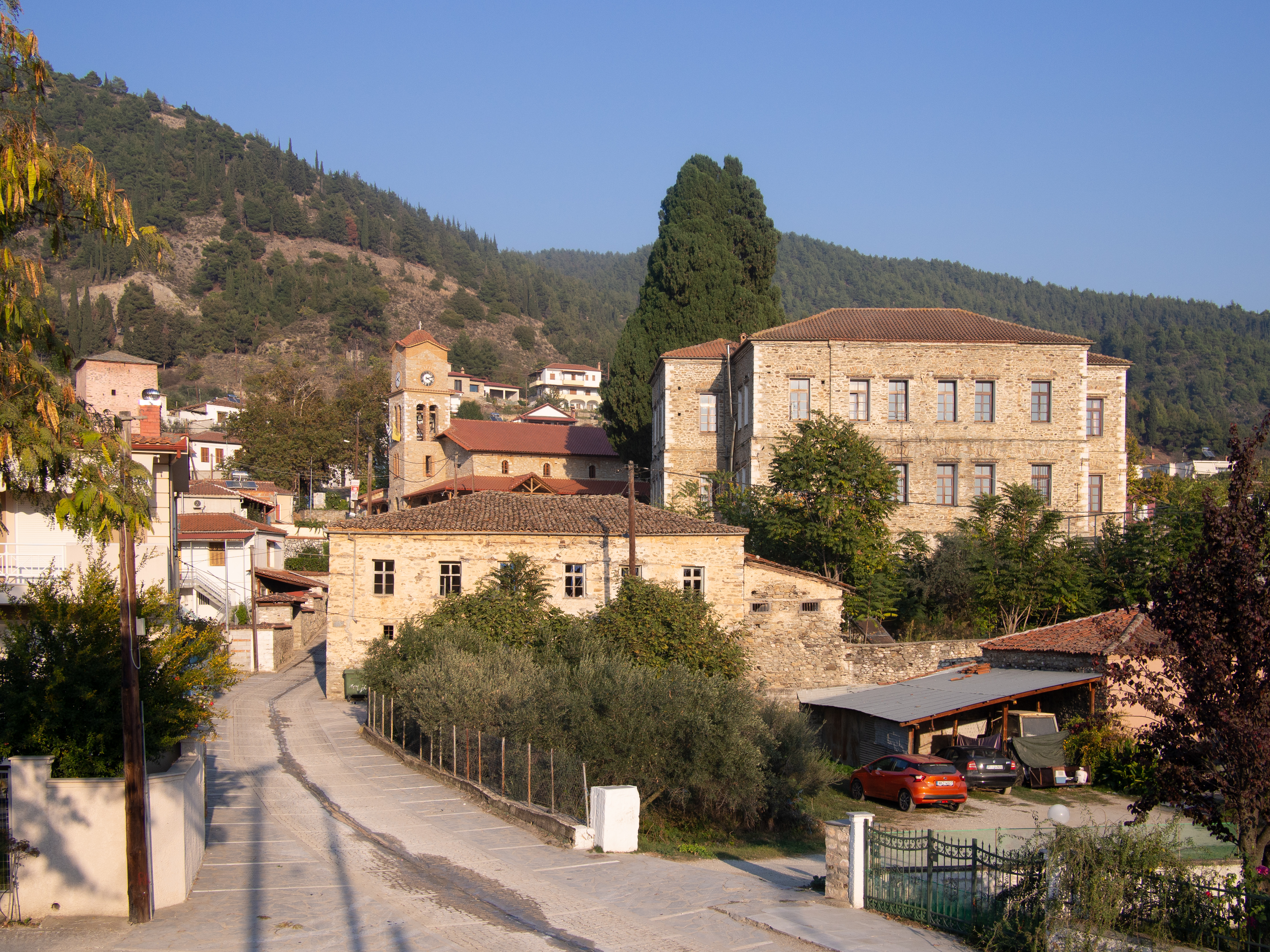 View of Tsaritsani, with Oikonomos School, the church of Theotokos and the tower of Mamtzios.